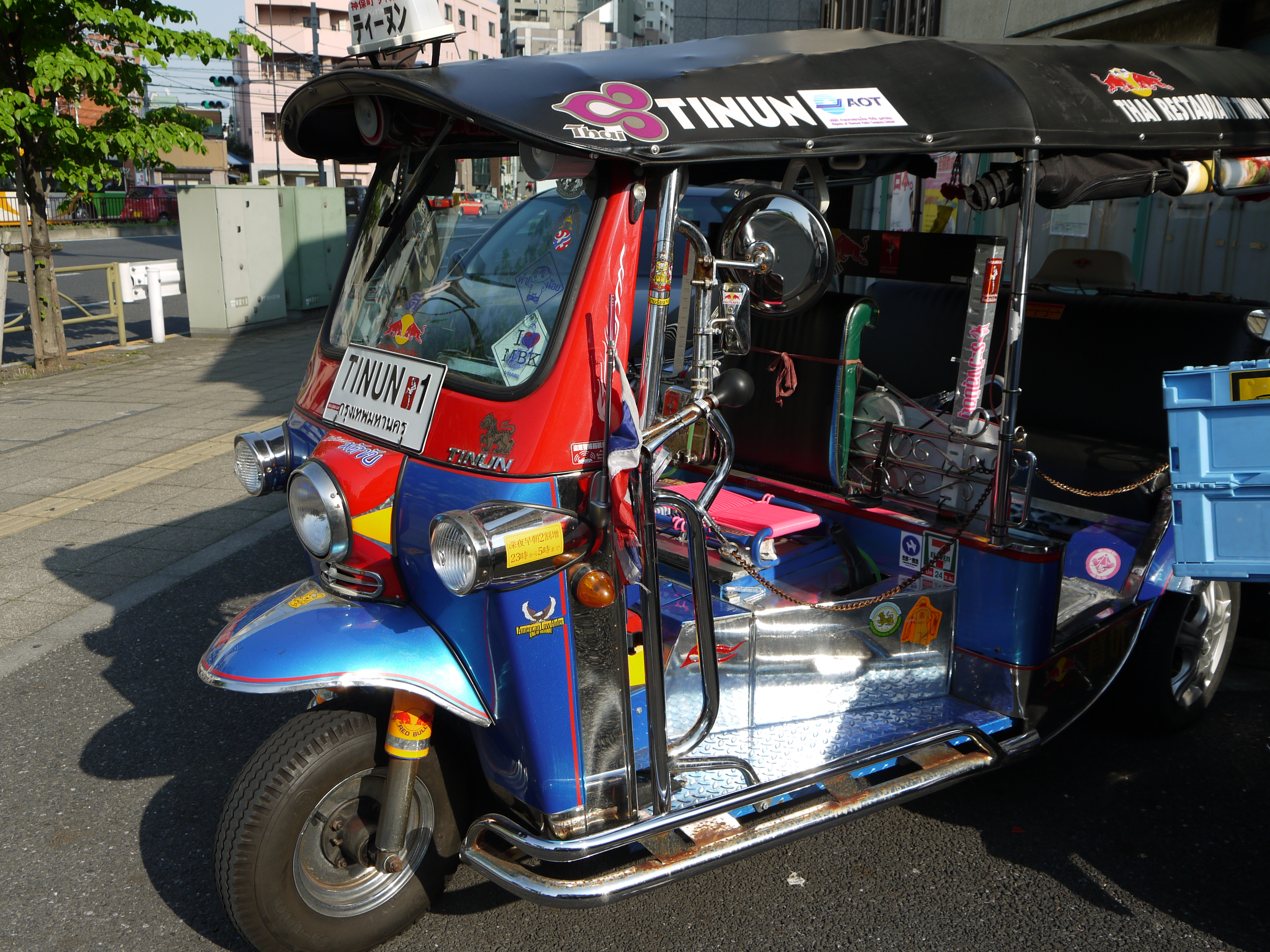 TukTuk in Japan